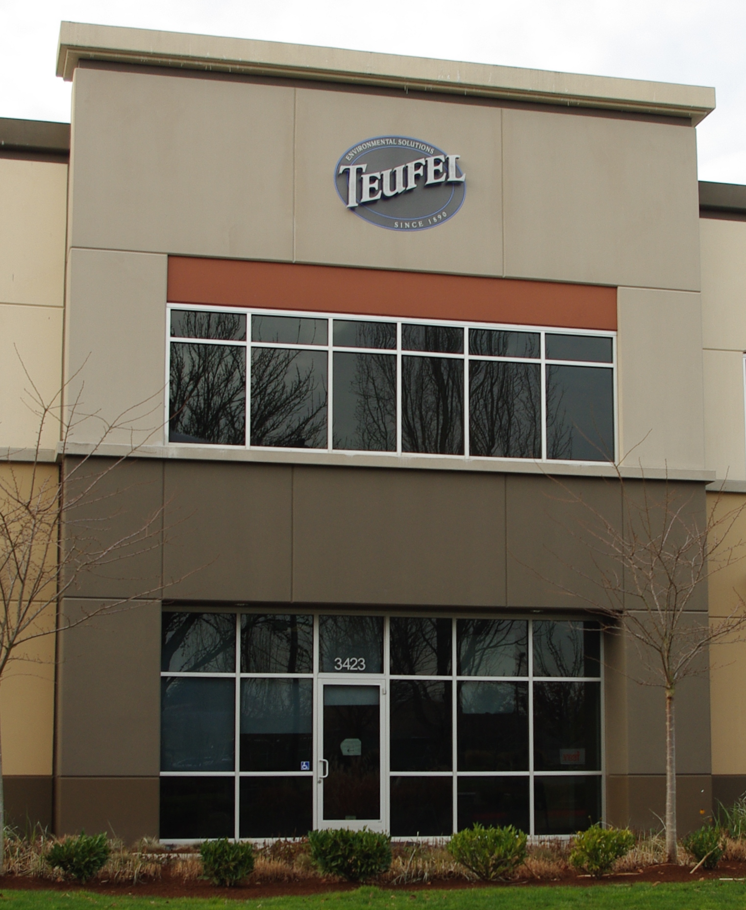 Teufel Landscaping HQ in Hillsboro, Oregon.